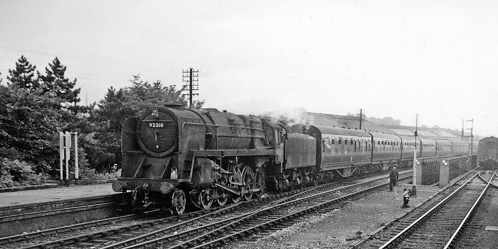 Bath Green Park, with express arriving from S&D line. View SW, towards Templecombe and Bournemouth by the ex-Somerset & Dorset (S&D) line, also to Mangotsfield etc. by the ex-Midland line, the junction being ½-mile out. The train is a Summer Saturday portion of the 'Pines Express, 09.25 Bournemouth West to Manchester and Liverpool, which will reverse and be taken on at the other end to proceed north. The locomotive is BR Standard 9F 2-10-0 No. 92210 - a type recently introduced to the S&D to handle heavy trains over its steep inclines